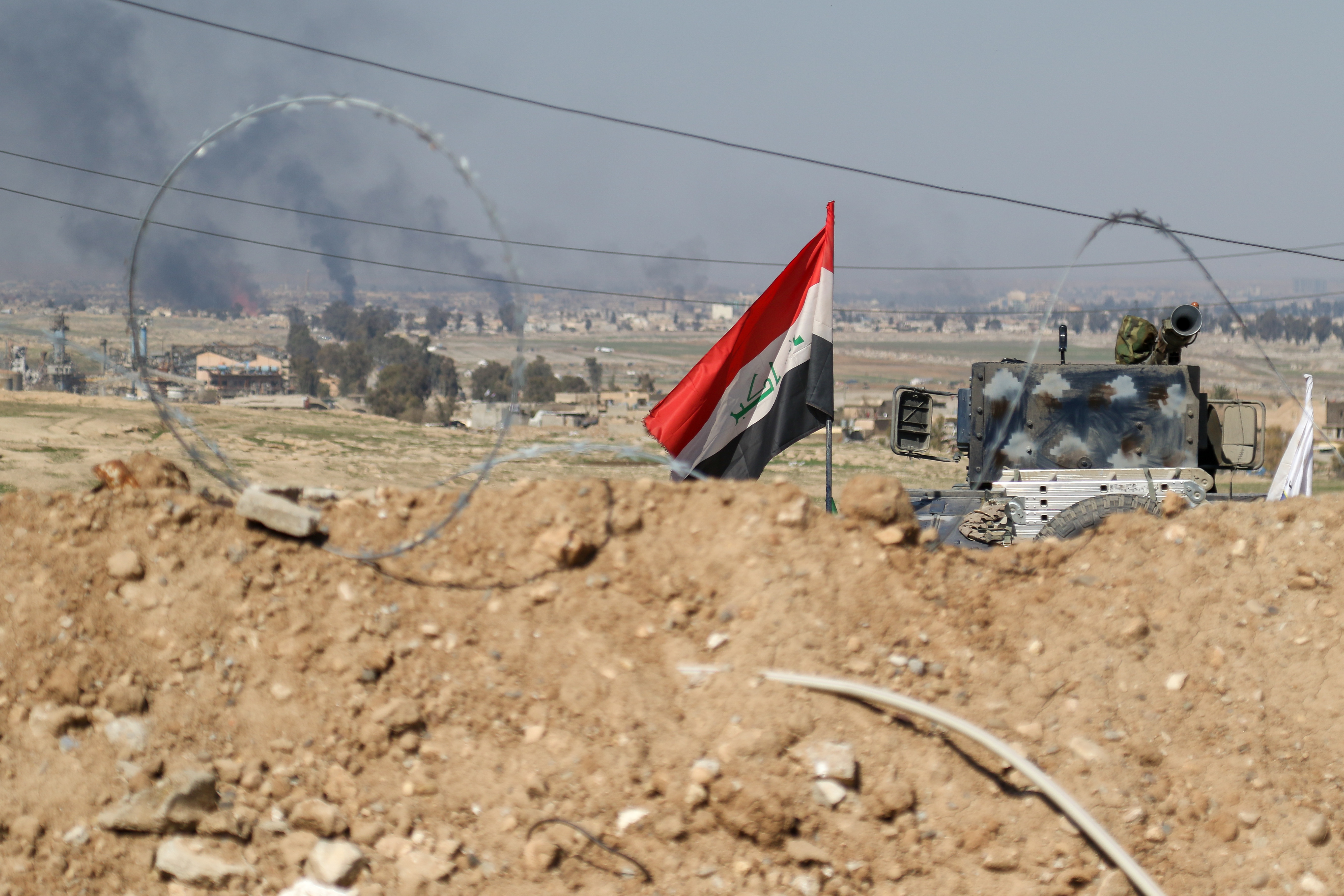 Explosions rock West Mosul, Iraq, during the Combined Joint Task Force-Operation Inherent Resolve-backed Iraqi security forces' offensive to liberate the city, March 6, 2017. The breadth and diversity of partners supporting the Coalition demonstrate the global and unified nature of the endeavor to defeat ISIS. CJTF-OIR is the global Coalition to defeat ISIS in Iraq and Syria. (U.S. Army photo by Staff Sgt. Jason Hull) Unit: 2nd Brigade Combat Team, 82nd Airborne Division Public Affairs DVIDS Tags: 82nd Airborne Division; advise and assist; Mosul; offensive; Coalition; key leader engagement; Iraqi security force; partners; Iraqi federal police; Iraq; 2nd Brigade Combat Team; mission; 73rd Cavalry Regiment; 1st Squadron; ISIS; Daesh; CJTF-OIR; Combined Joint Task Force-Operation Inherent Resolve; global Coalition